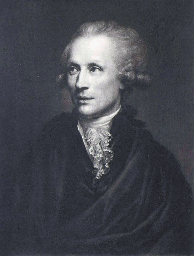 Ludwig Heinrich von Nicolai (1737-1820) (after entering Russian service Andrey Lvovich) was a poet of the Enlightenment, librarian, secretary, academician and the President of Petersburg Academy of Sciences.